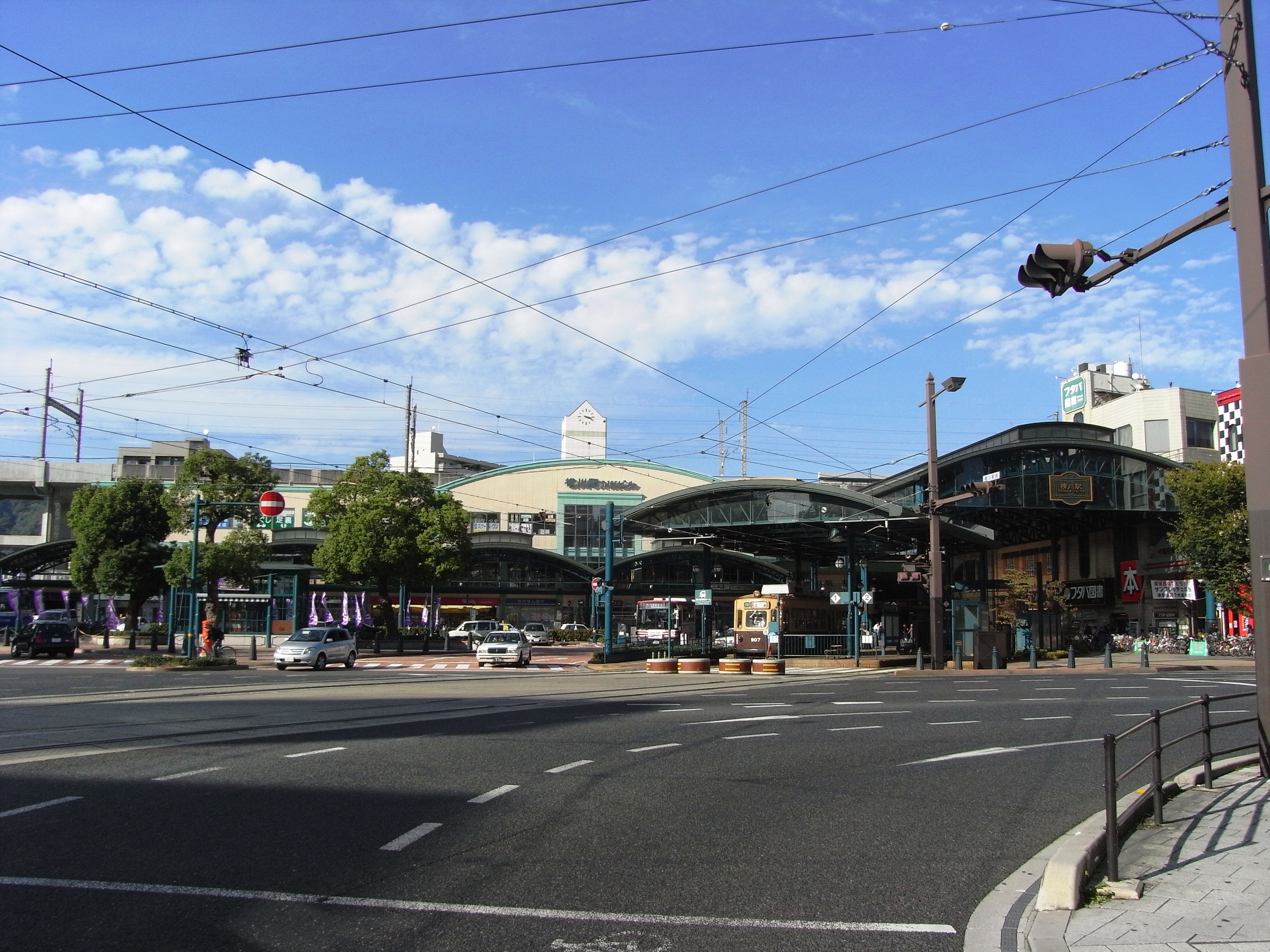 JR横川駅南口 South entrance showing Hiroshima Electric Railway tram stop at the south entrance to Yokogawa Station in Hiroshima, Hiroshima Prefecture, Japan. in Hiroshima, Hiroshima Prefecture, Japan